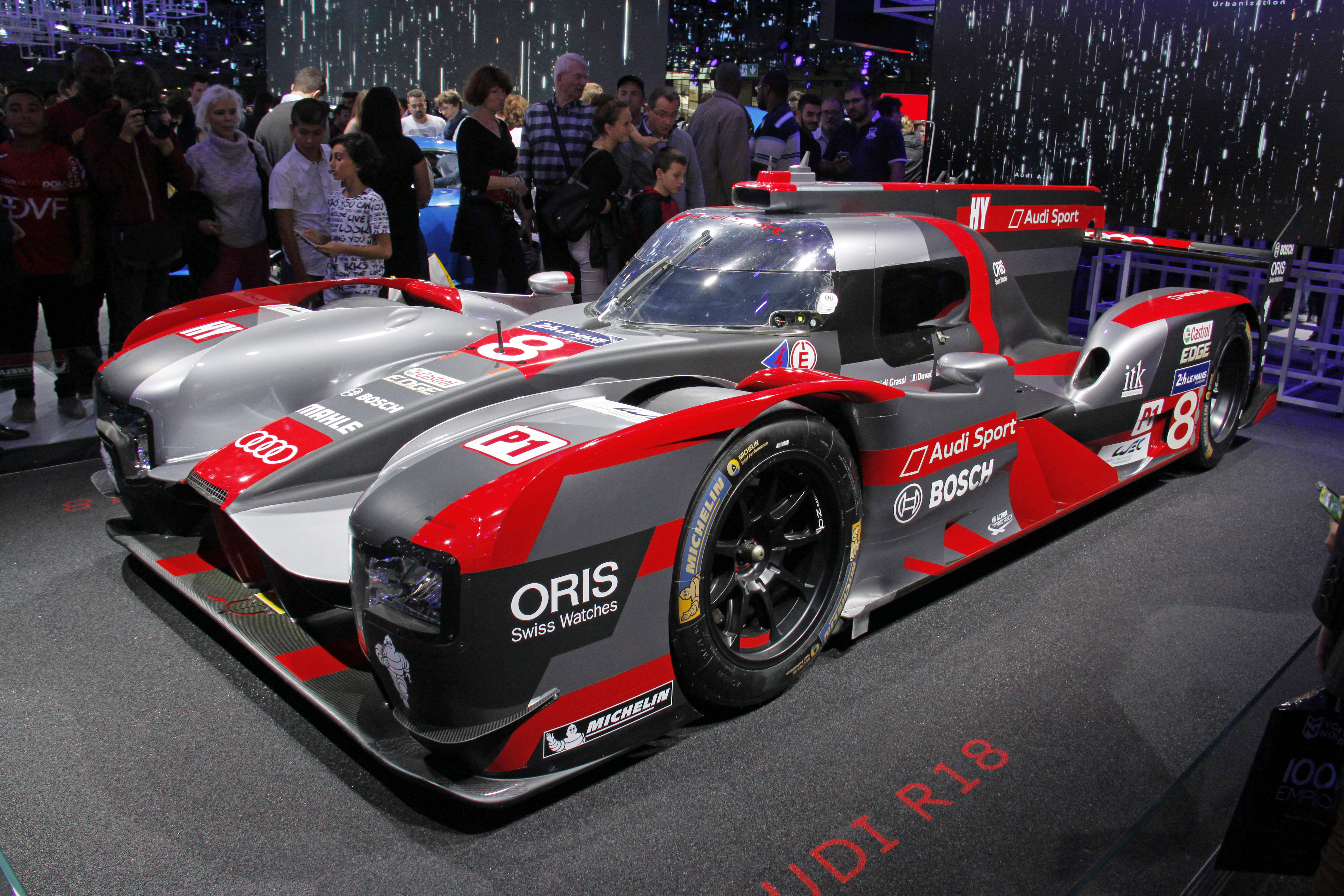 Audi R18 at the 2016 Mondial de l'Automobile in Paris